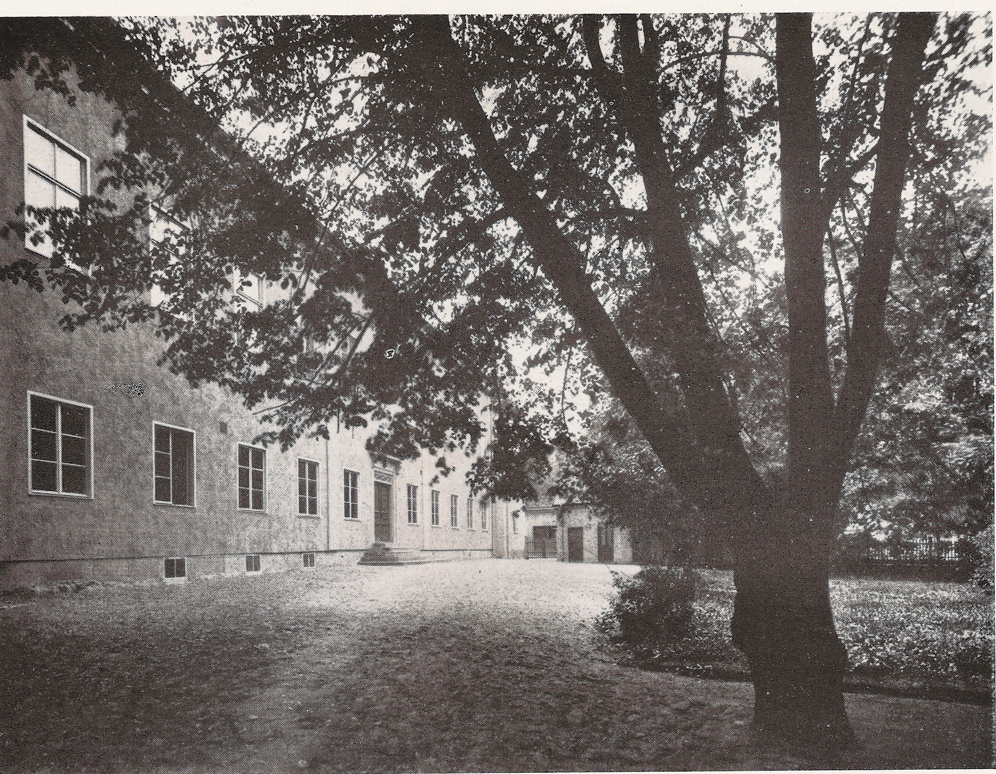 Västmanlands Dala 1st nation house after conversion 1914-1965